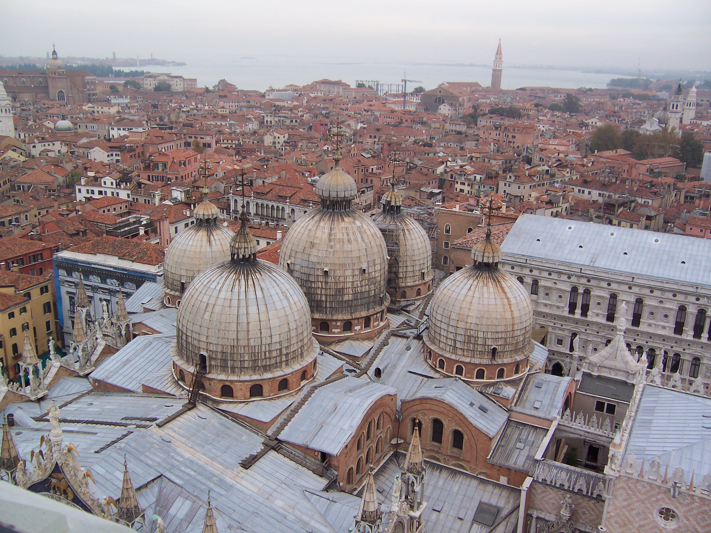 The top of St Mark's Basilica seen from St Mark's Campanile, Venice, Italy